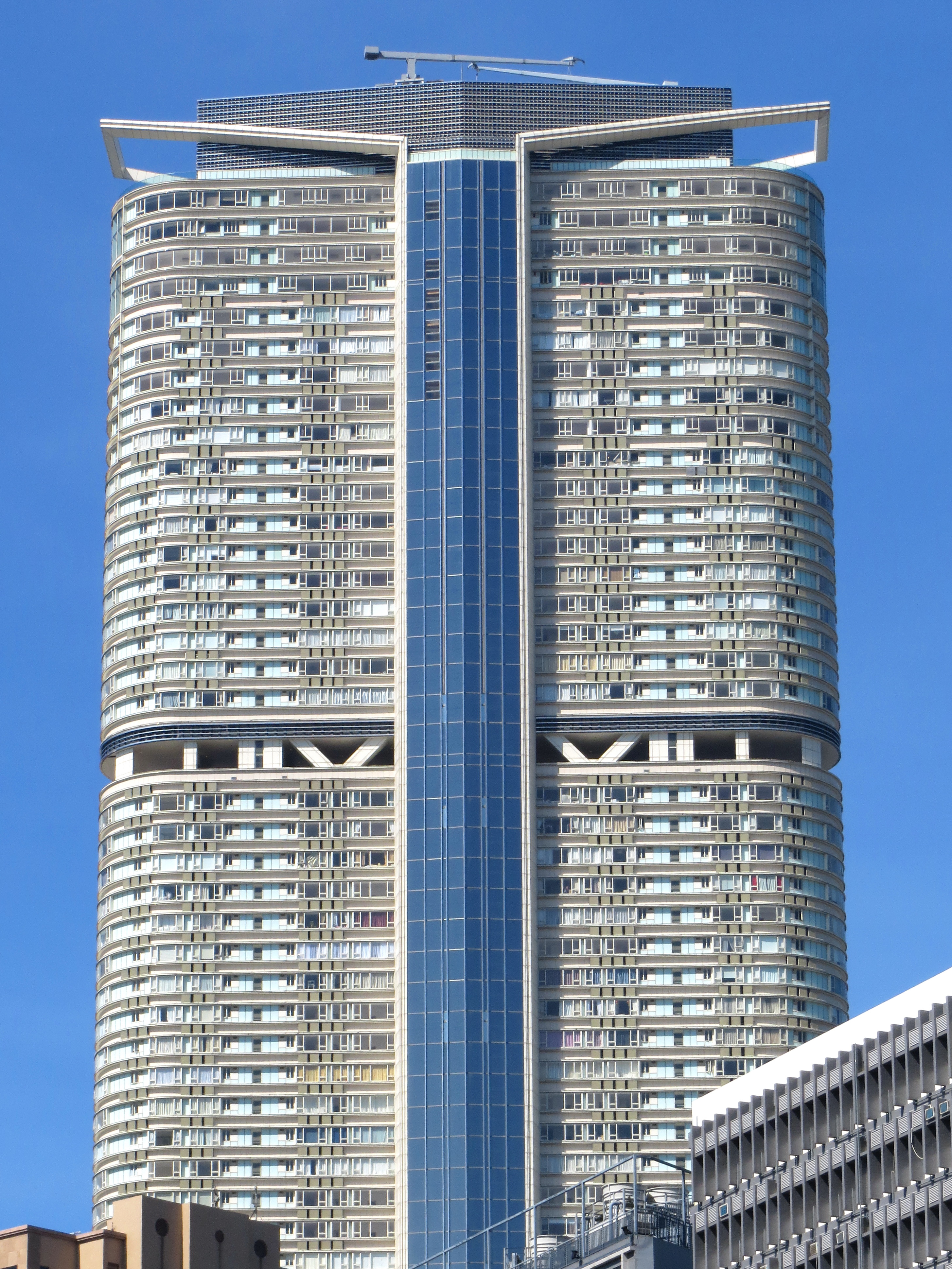 The Masterpiece, Tsim Sha Tsui, Kowloon, Hong Kong.